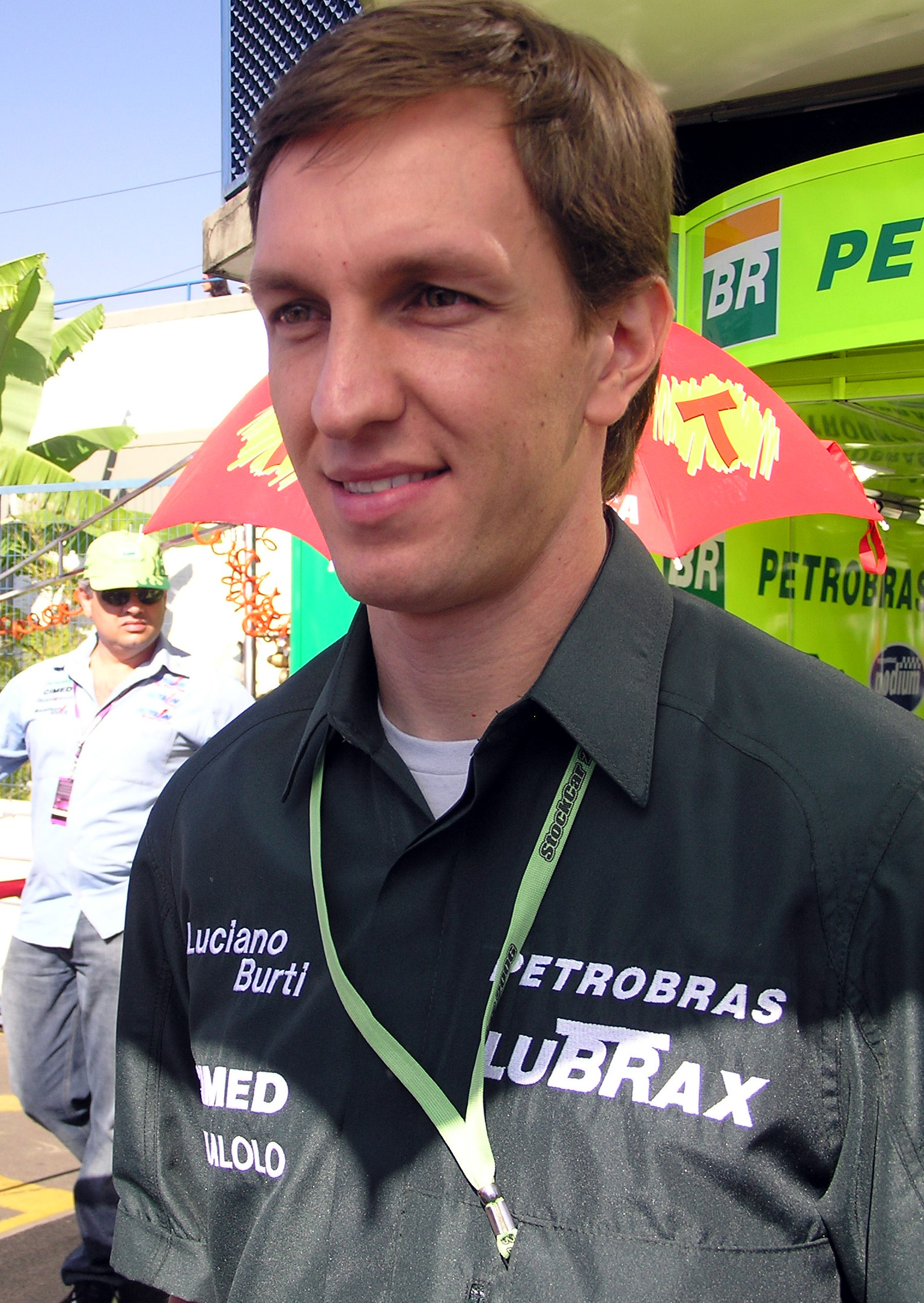 Luciano Burti (Petrobras-Action Power) at Stock Car Brasil in 2006.